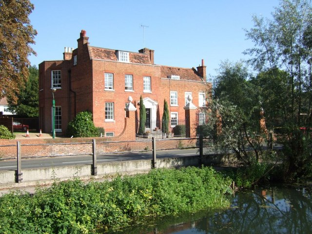 Cedar House Hotel Hotel, with River Mole in the foreground.